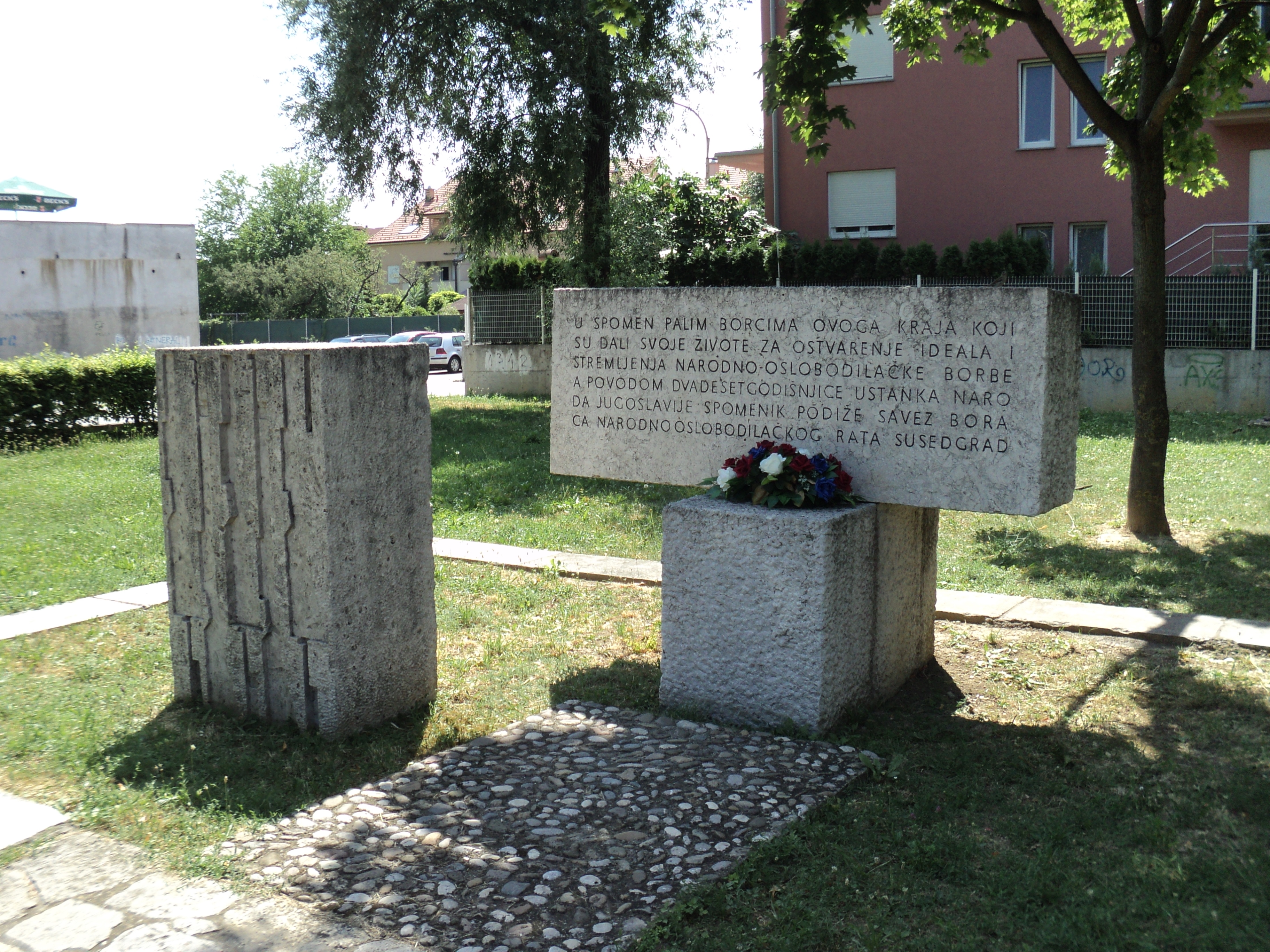 Monument to the fallen fighters of the People's liberation struggle of Yugoslavia in Stenjevec, Zagreb.